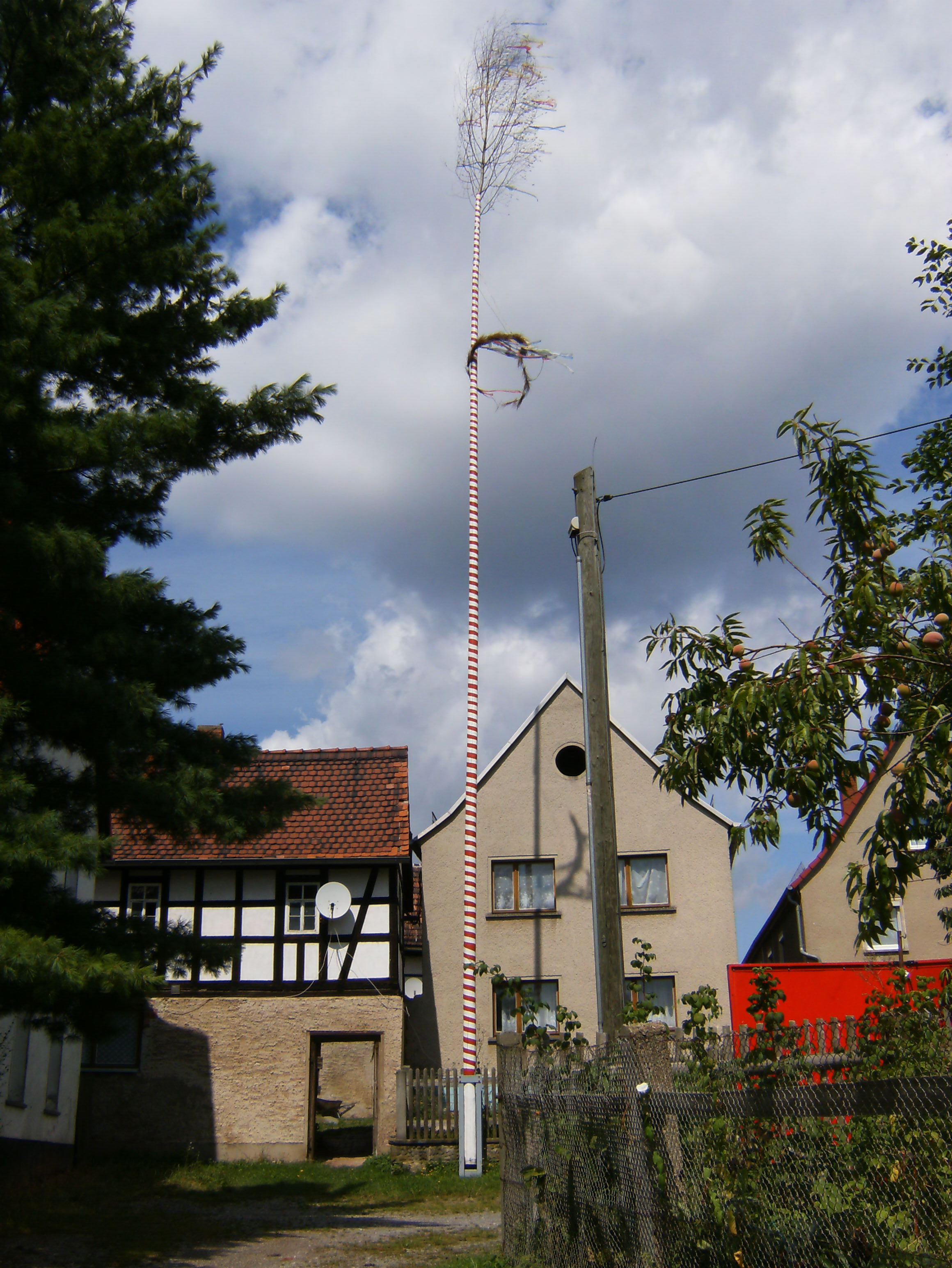 Gera Gorlitzsch, village view.